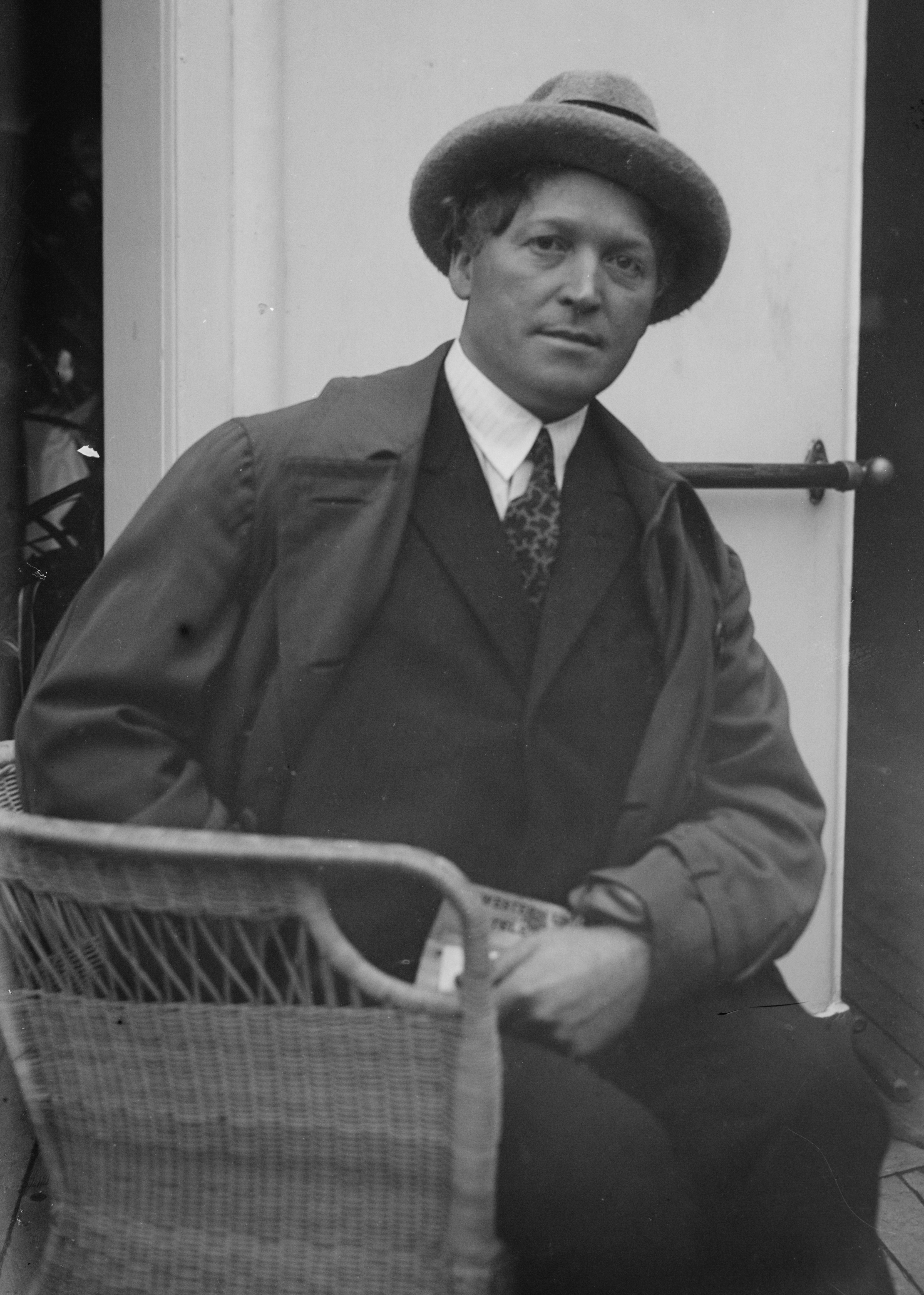 German actor Werner Krauss (1884-1959).